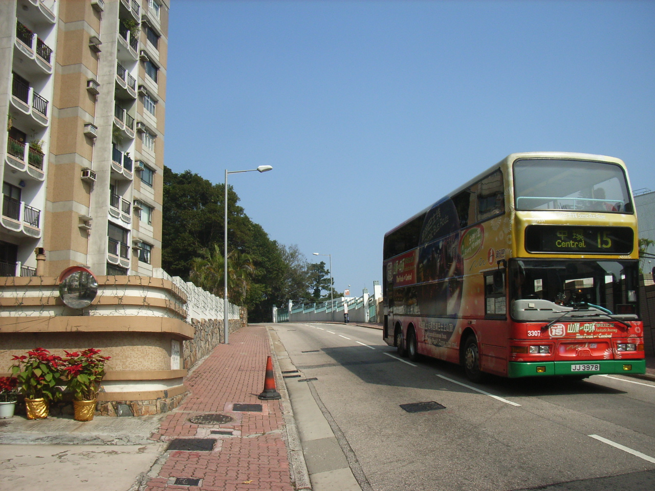 Guildford Road, Peak Road, the Victoria Peak, Hong Kong. 僑福道 （Guildford Road），是香港島太平山頂山頂纜車總站的東面，山頂道的南面(摘星閣)的一條街道，交通有15號巴士及1號小巴出入。 Photographer and author is ParkerStarS.